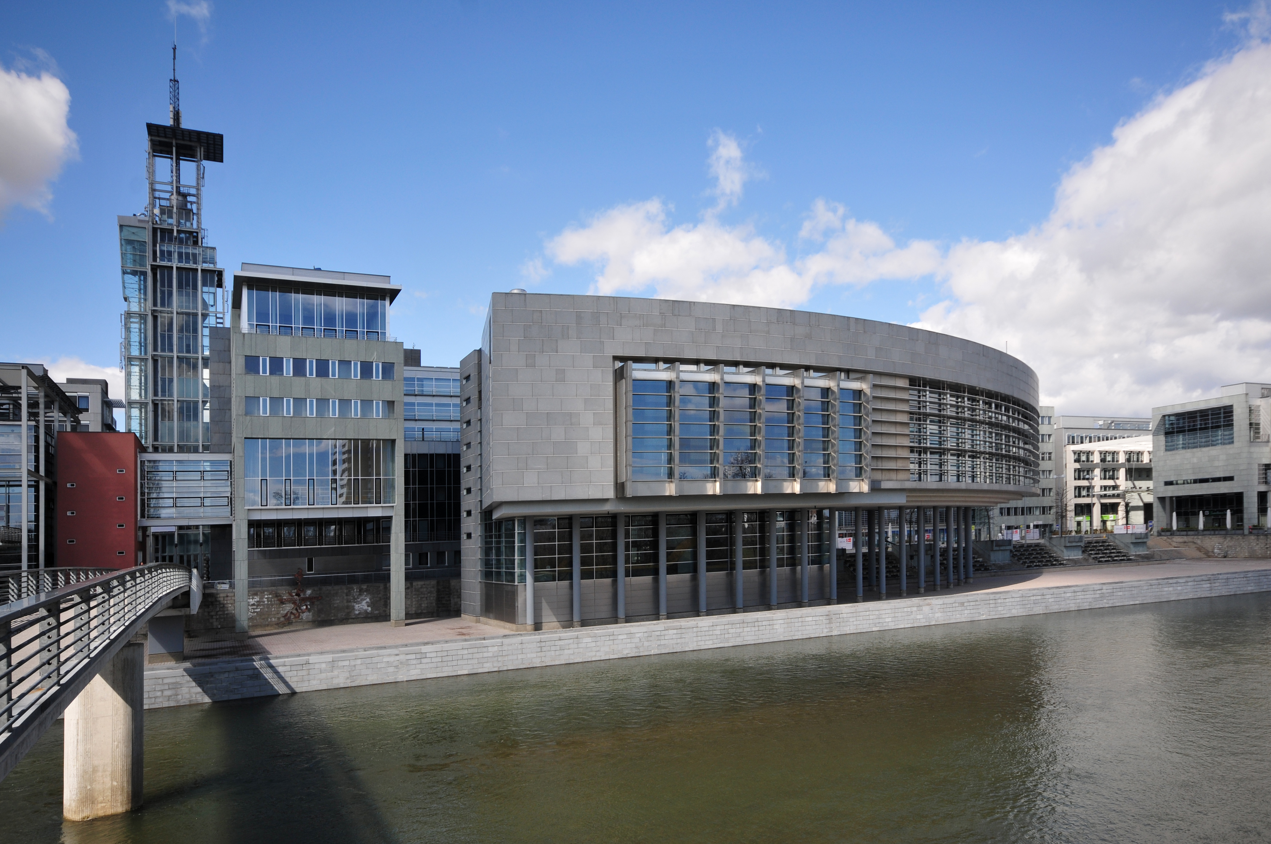 St. Pölten, Austria, Landhausviertel Fotowanderung St. Pölten 13. April 2013 in St. Pölten, Niederösterreich 50mm • Allgemeines • Bahnhof • Domplatz • Fahrräder • Landhausviertel • Rathausplatz